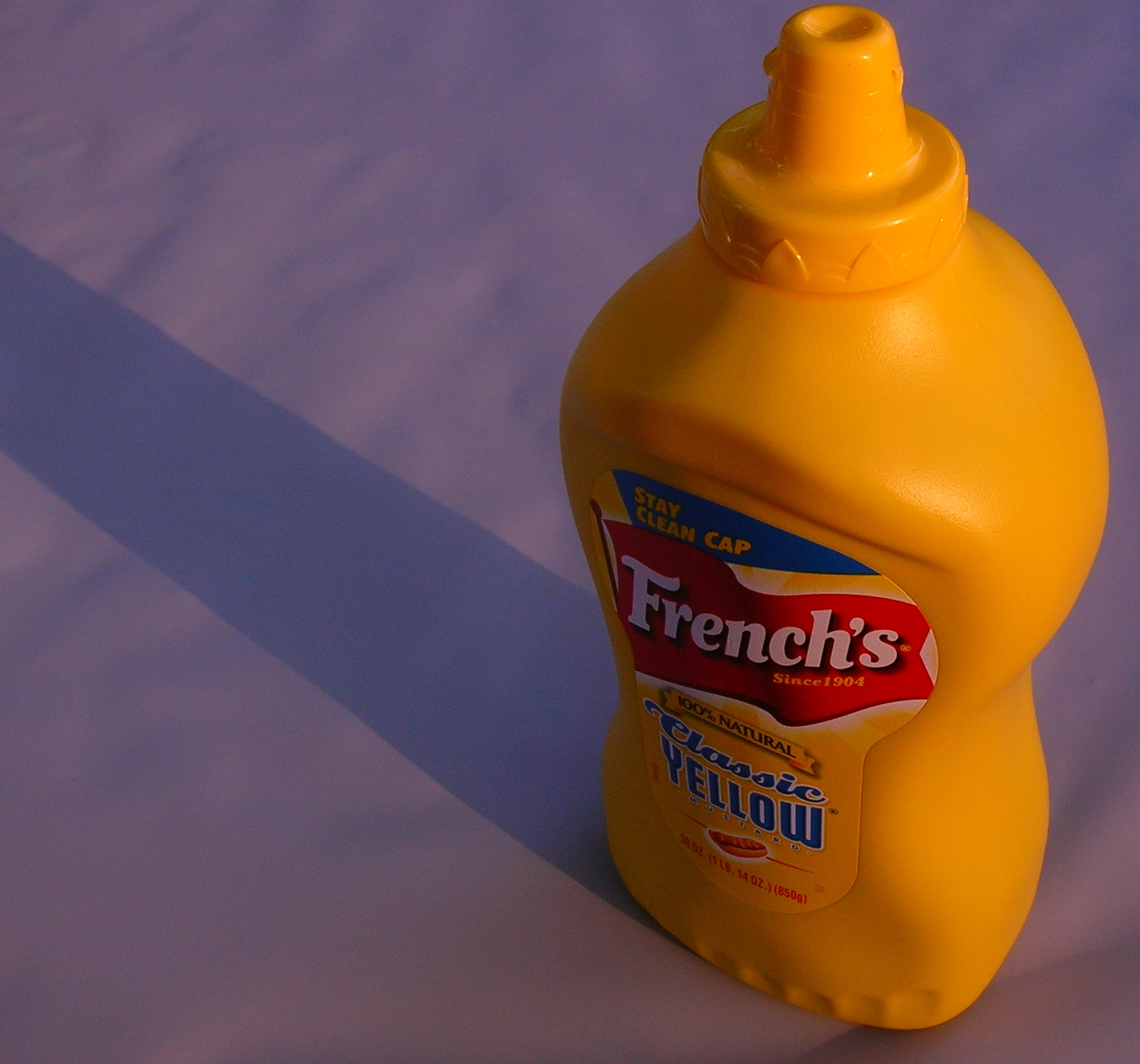 A sqeeze bottle of French's Classic Yellow Mustard